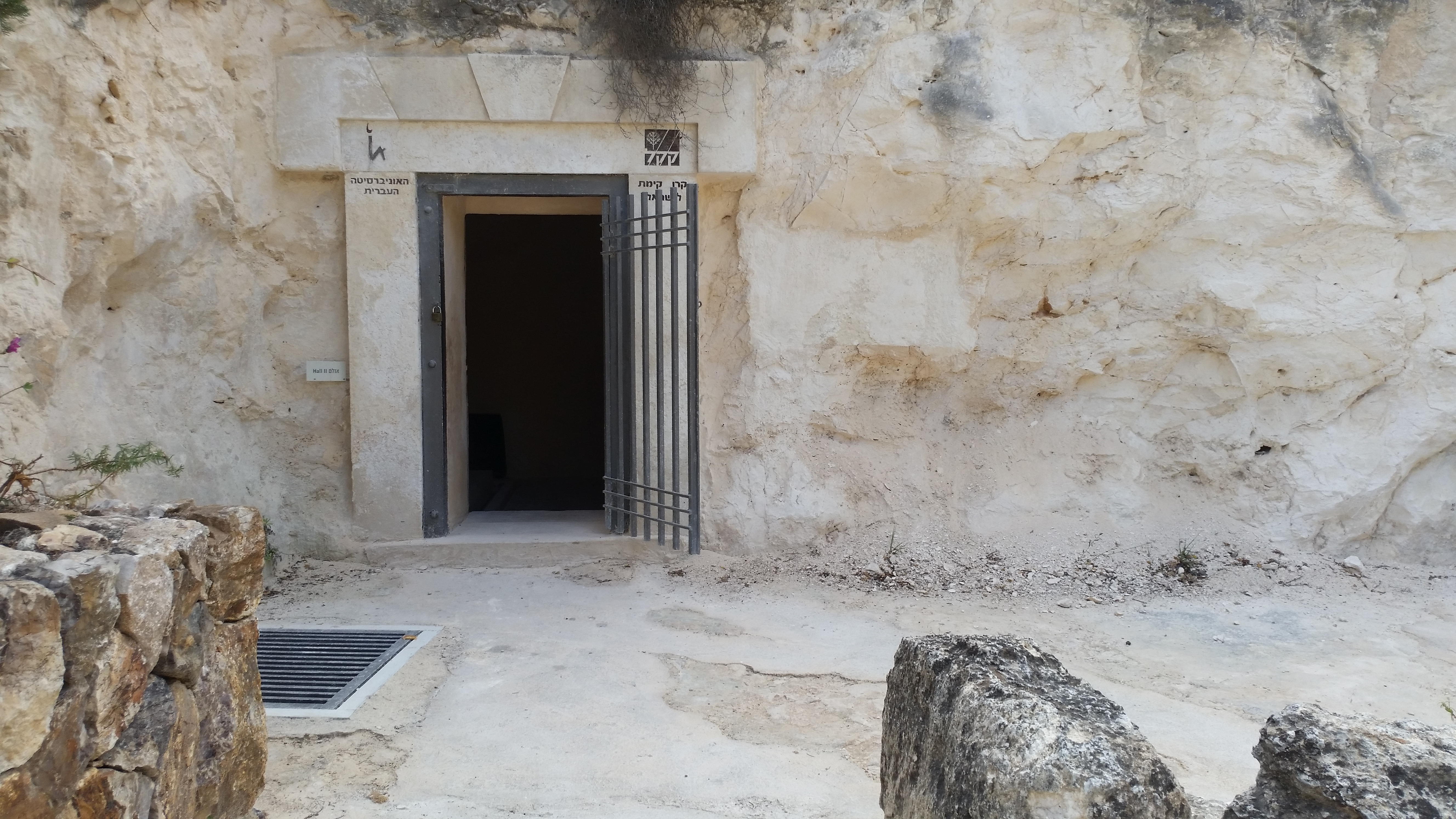 In front of one of the niches developers Nicanor's Tomb on Mount Scopus